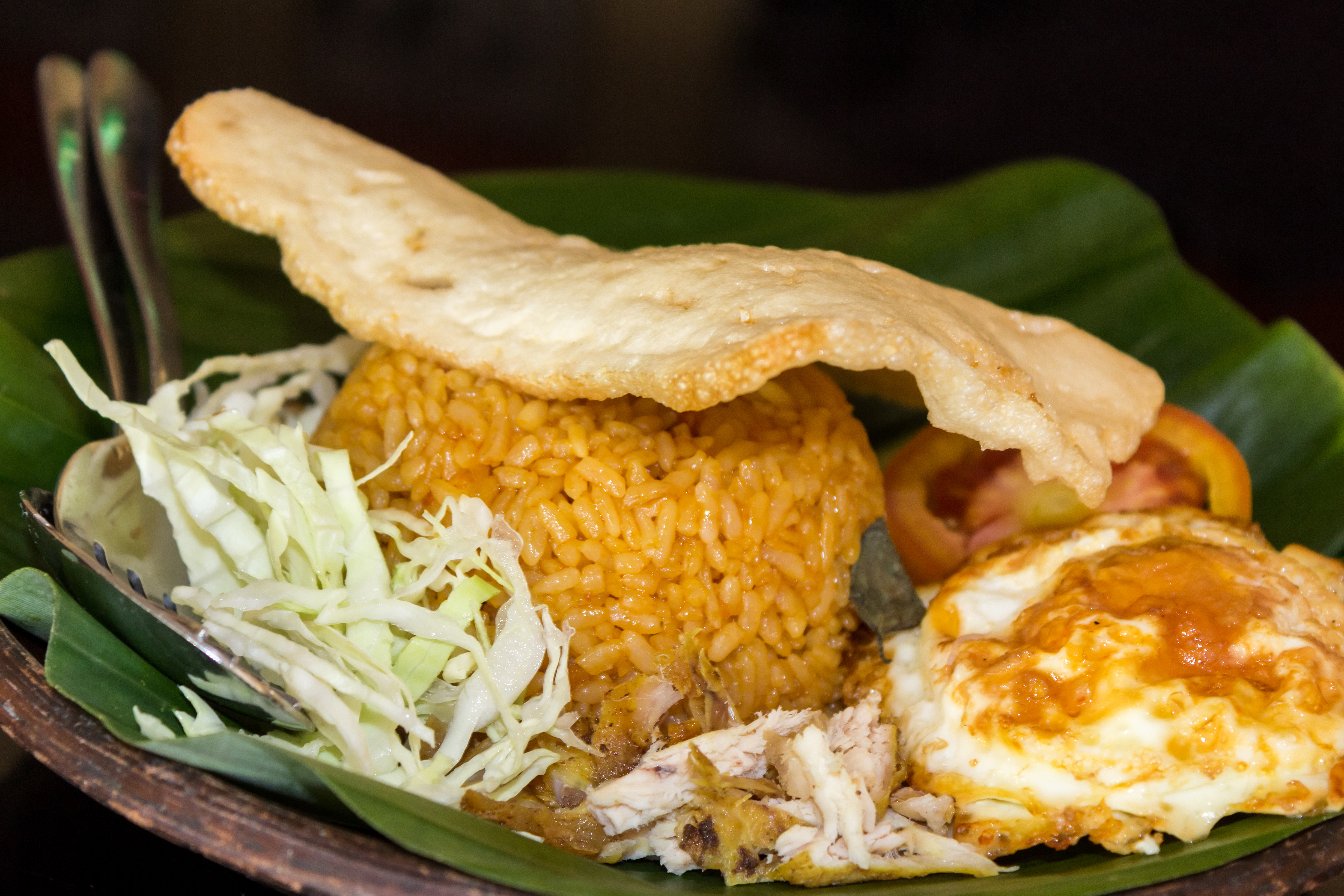 Fried rice and chicken, Banaran9 Cafe, 2014-06-16